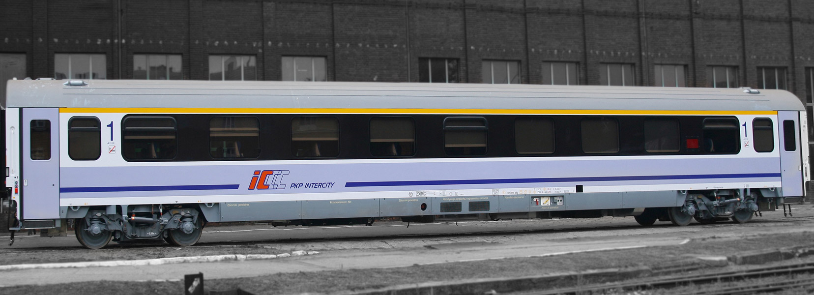 Allowed to be republished and reused for purposes of illustrating the company.